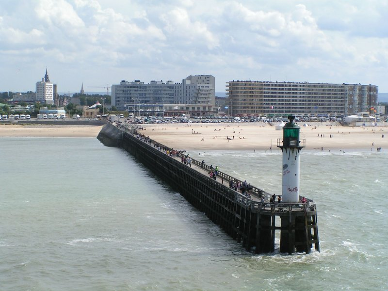 Pier and lighthouse on the seafront of Calais, France Image from German Wikipedia - By Stefan Kühn Bild:Calais.jpg Category:Piers in France